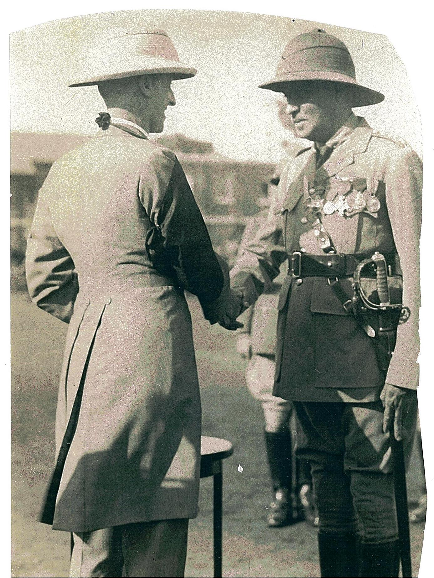 Frederick Sykes presenting Kavasji Jamshedji Petigara the Long Service Award in 1931. Photograph provided by Jill Grey.